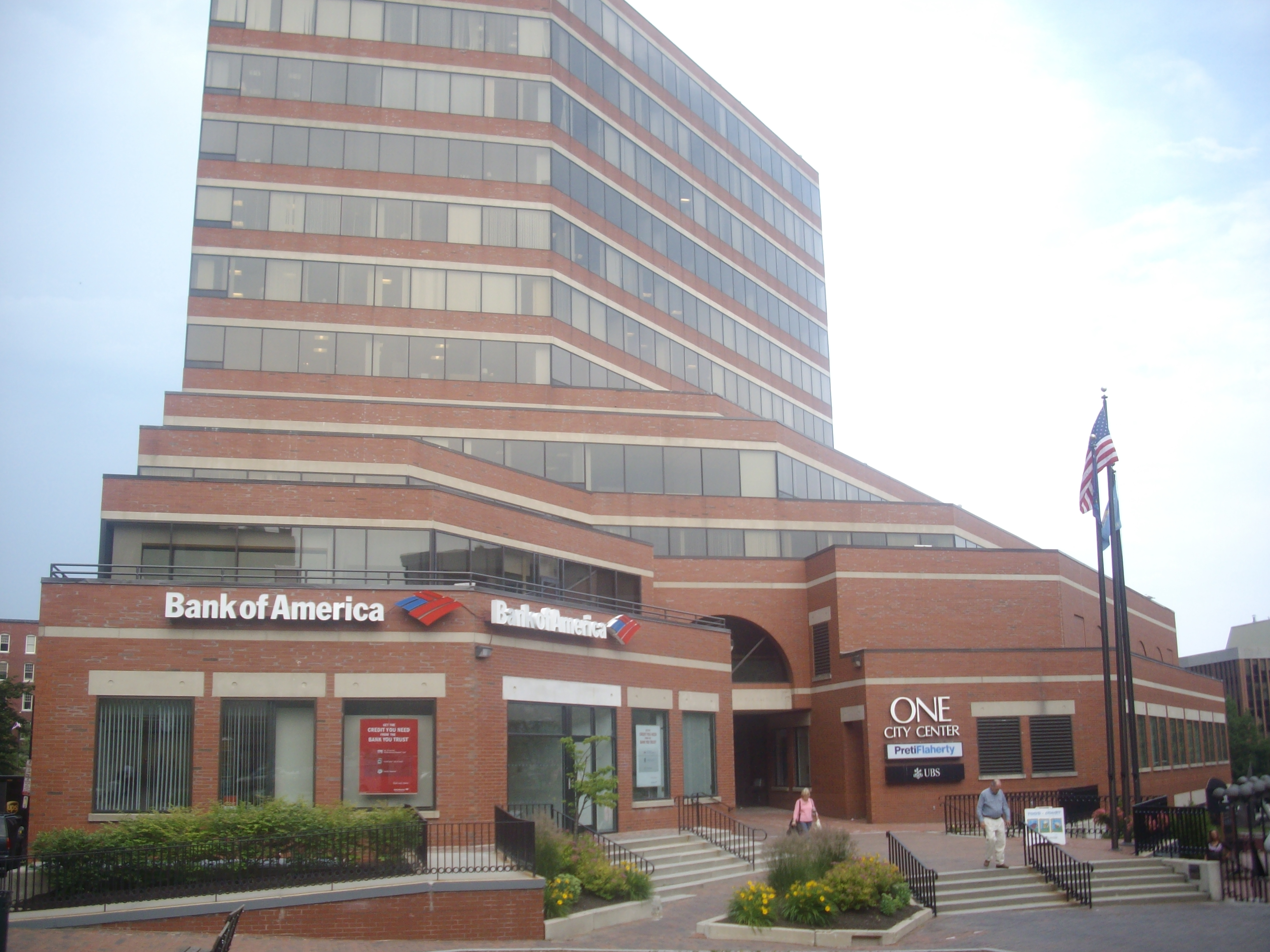 Entrance to One City Center